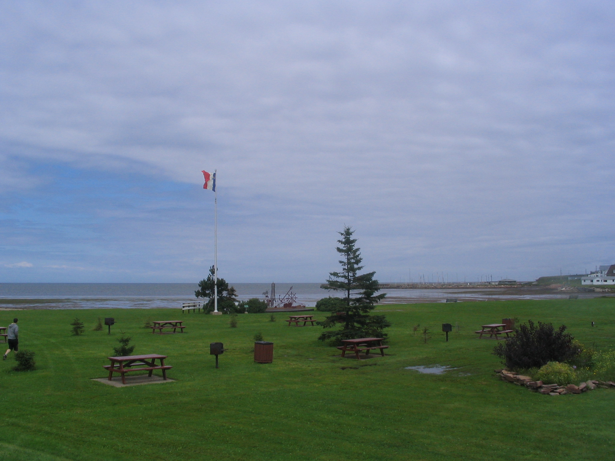 The Gabriel-Giraud site in Bas-Caraquet, New Brunswick, Canada.